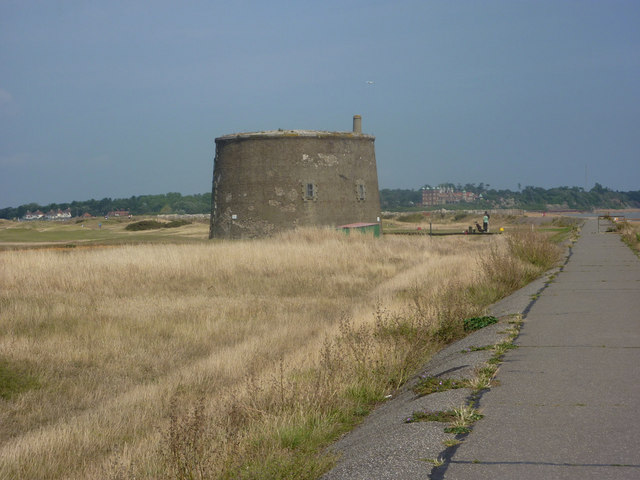 Sea wall footpath by Martello tower With golfers teeing off alongside. Looking in the direction of Felixstowe Ferry.